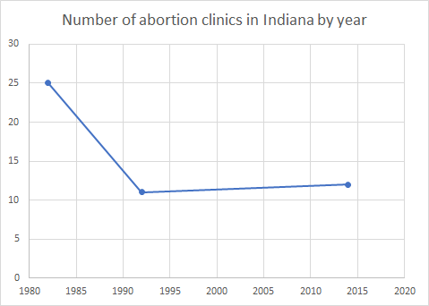 Number of abortion clinics in Iowa by year. Created using data linked on .